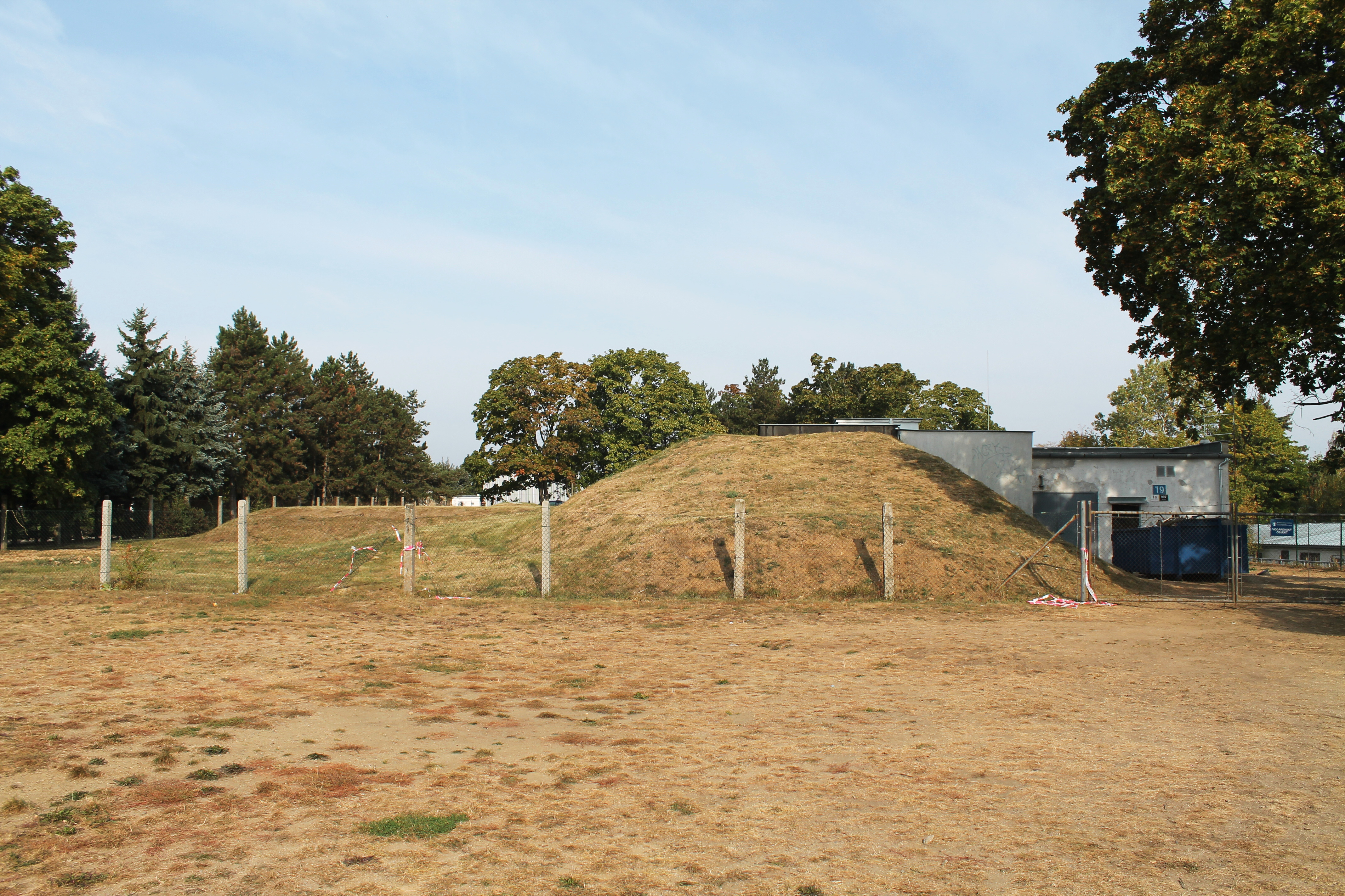 Water supply buildings at Kraví hora, Brno, Czech Republic